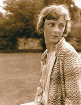 Zita Jungman at 25.